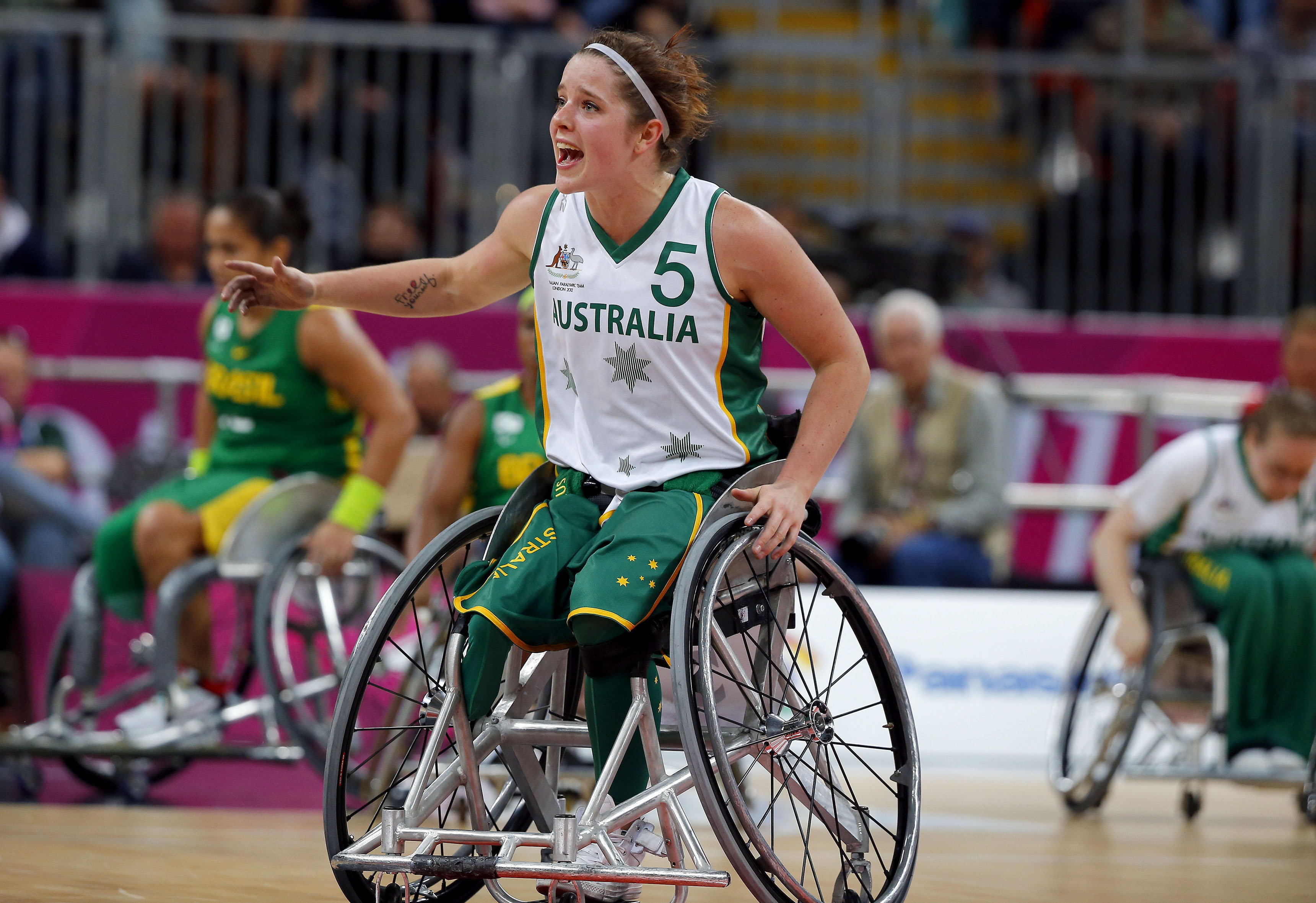 Photograph of Australian Paralympic team member Cobi Crispin at the 2012 Summer Paralympic Games in London